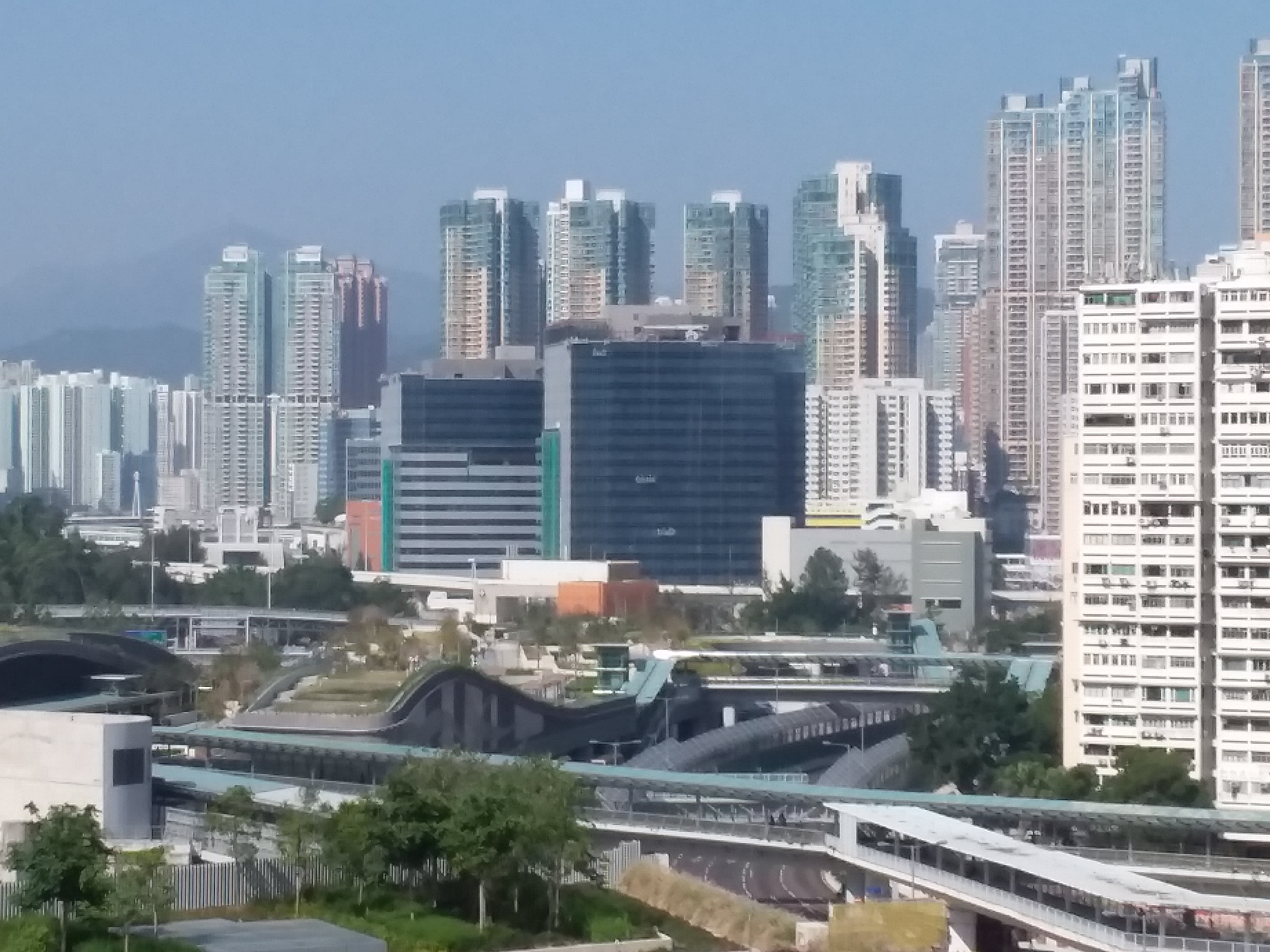 HK 西九龍 West Kln 西九龍站綠化空間 Green Plaza 天空走廊 Sky Corridor 觀景台 Sightseeing Deck view in January 2019